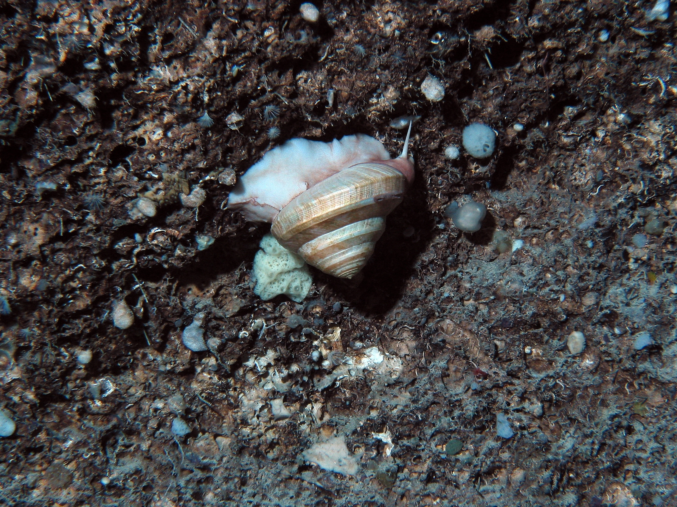 Bayerotrochus midas (Bayer, 1965); family Pleurotomariidae; Florida Keys